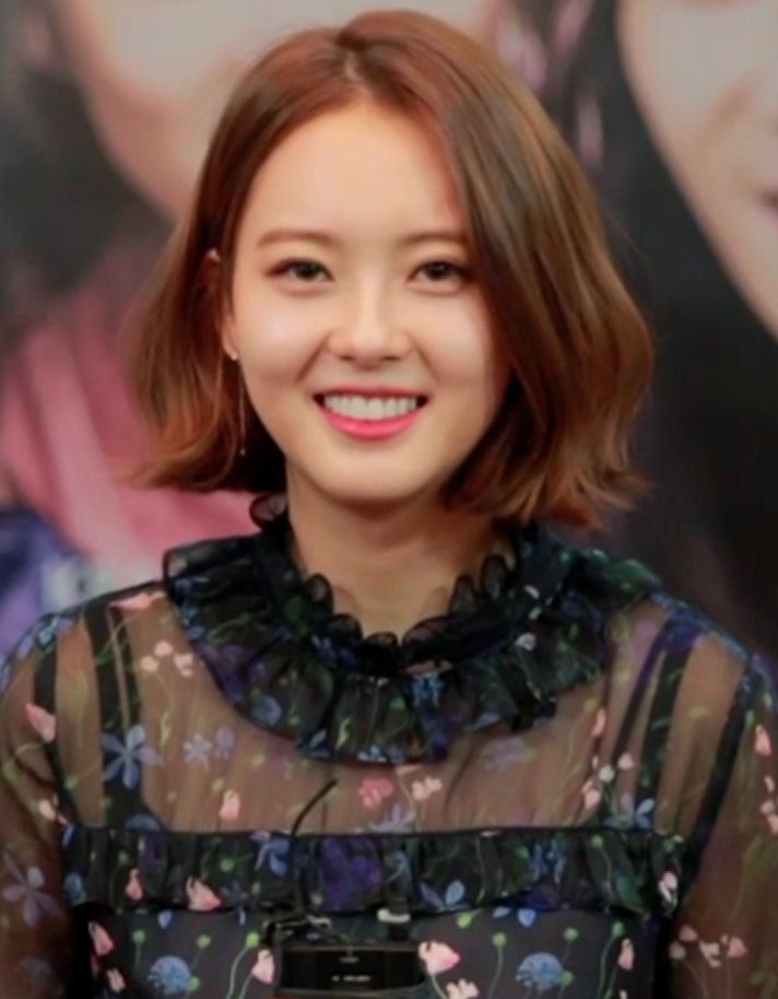 Go Ara promoting the drama Hwarang, on January 5, 2017.